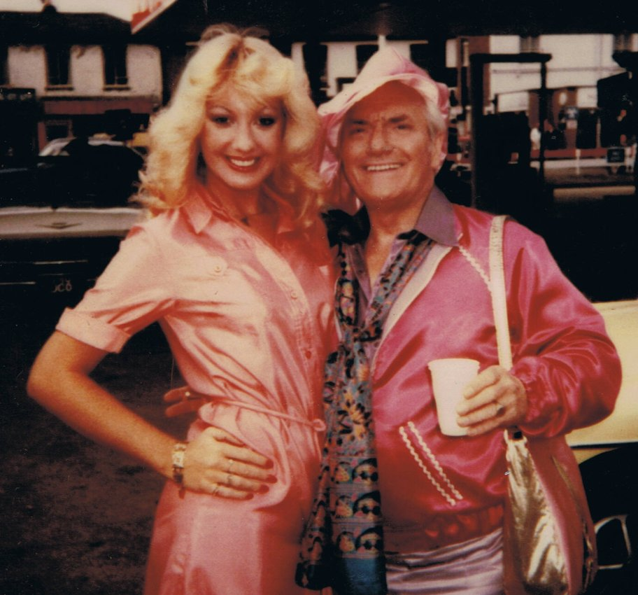 Photograph of Susie Silvey with Dick Emery